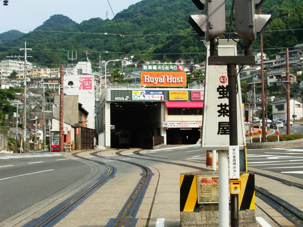 Hotarujaya station in Nagasaki city Nagasaki Japan